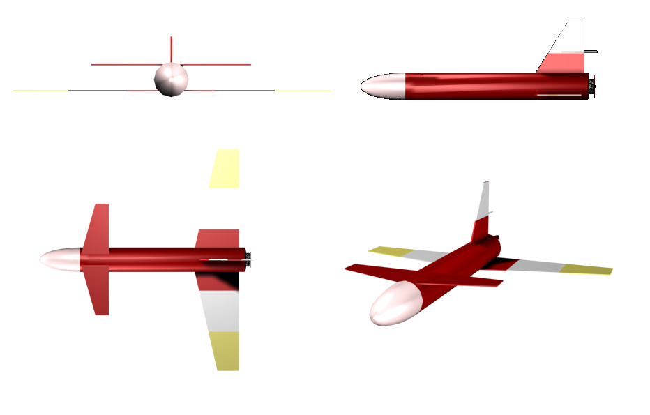 An Iranian ababil made by me.